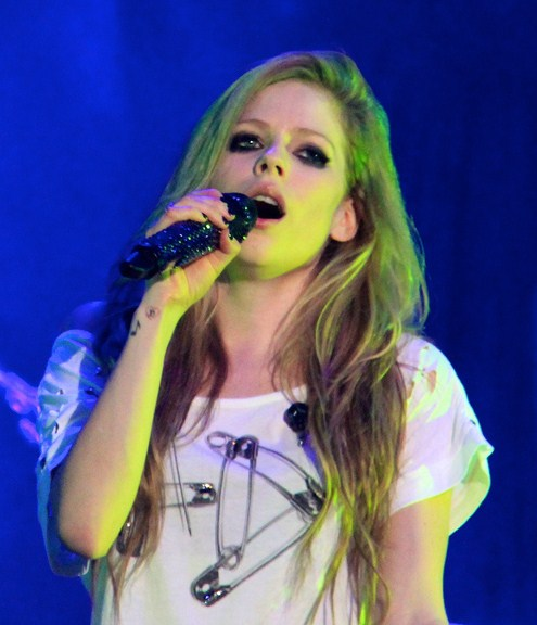 Taken at the Singapore Indoor Stadium during Avril Lavigne's Black Star Tour.